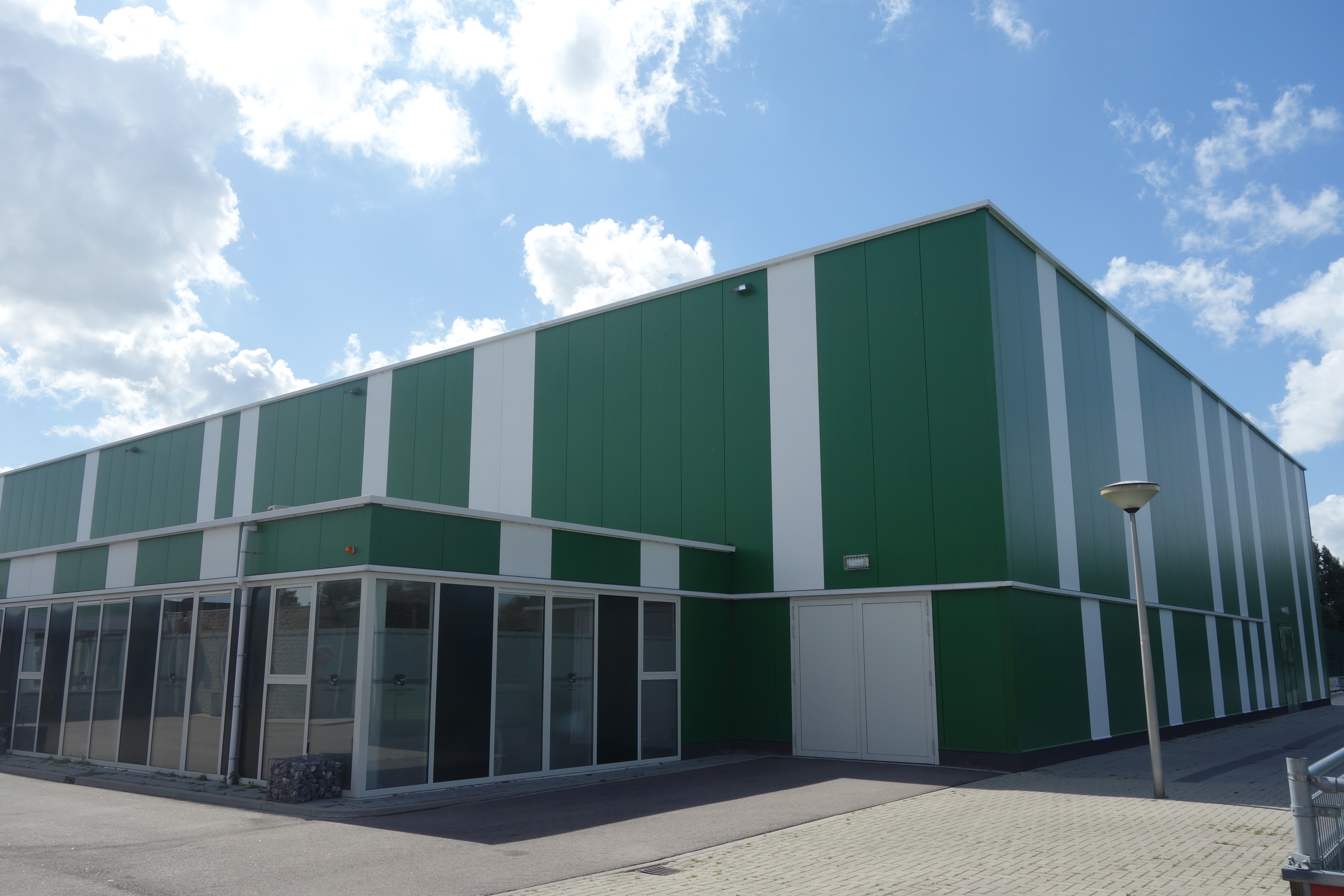 Sports hall Quintus (Kwintsheul, Westland, the Netherlands) 2018